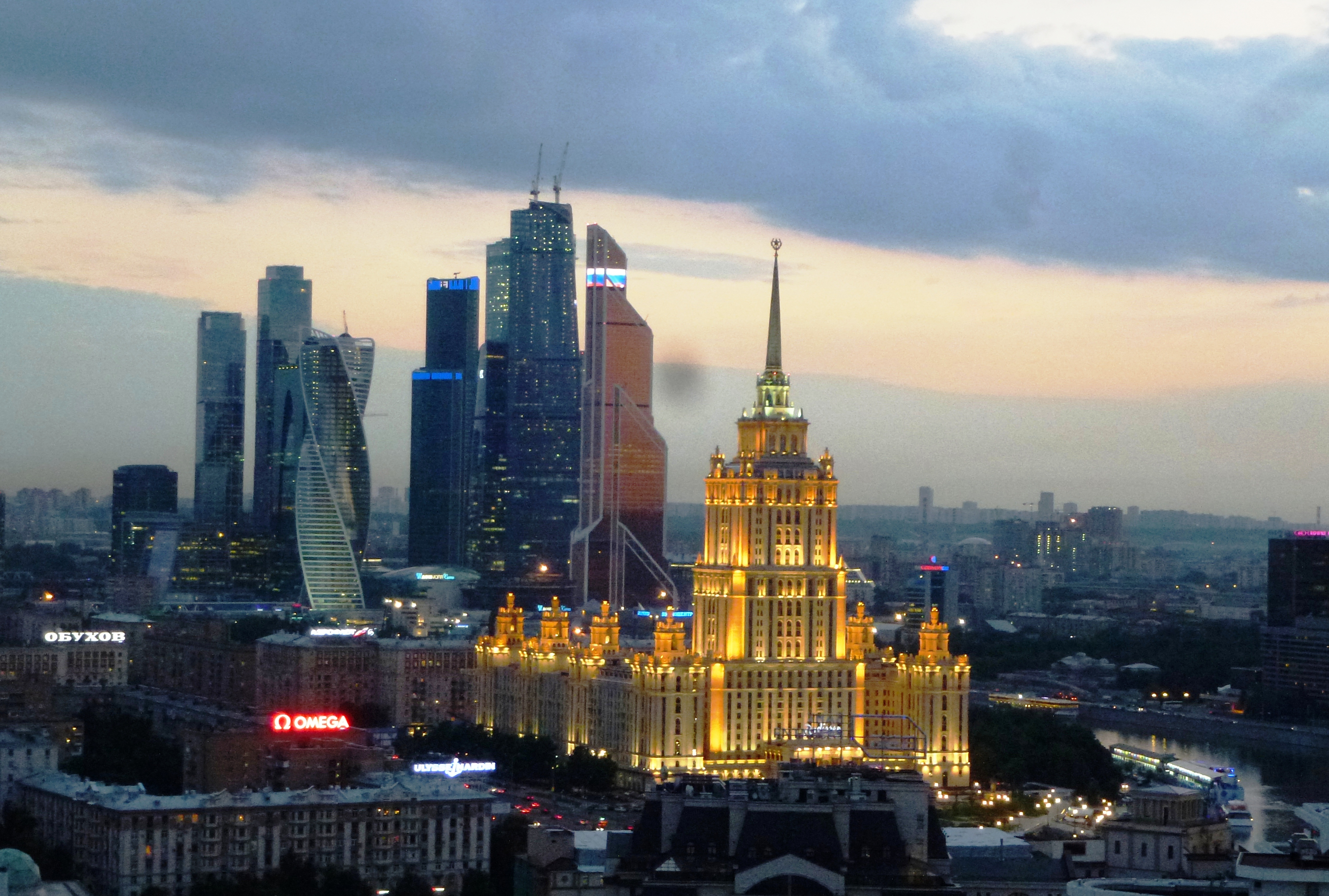 Moscow Financal City and Hotel Ukraina in the evening